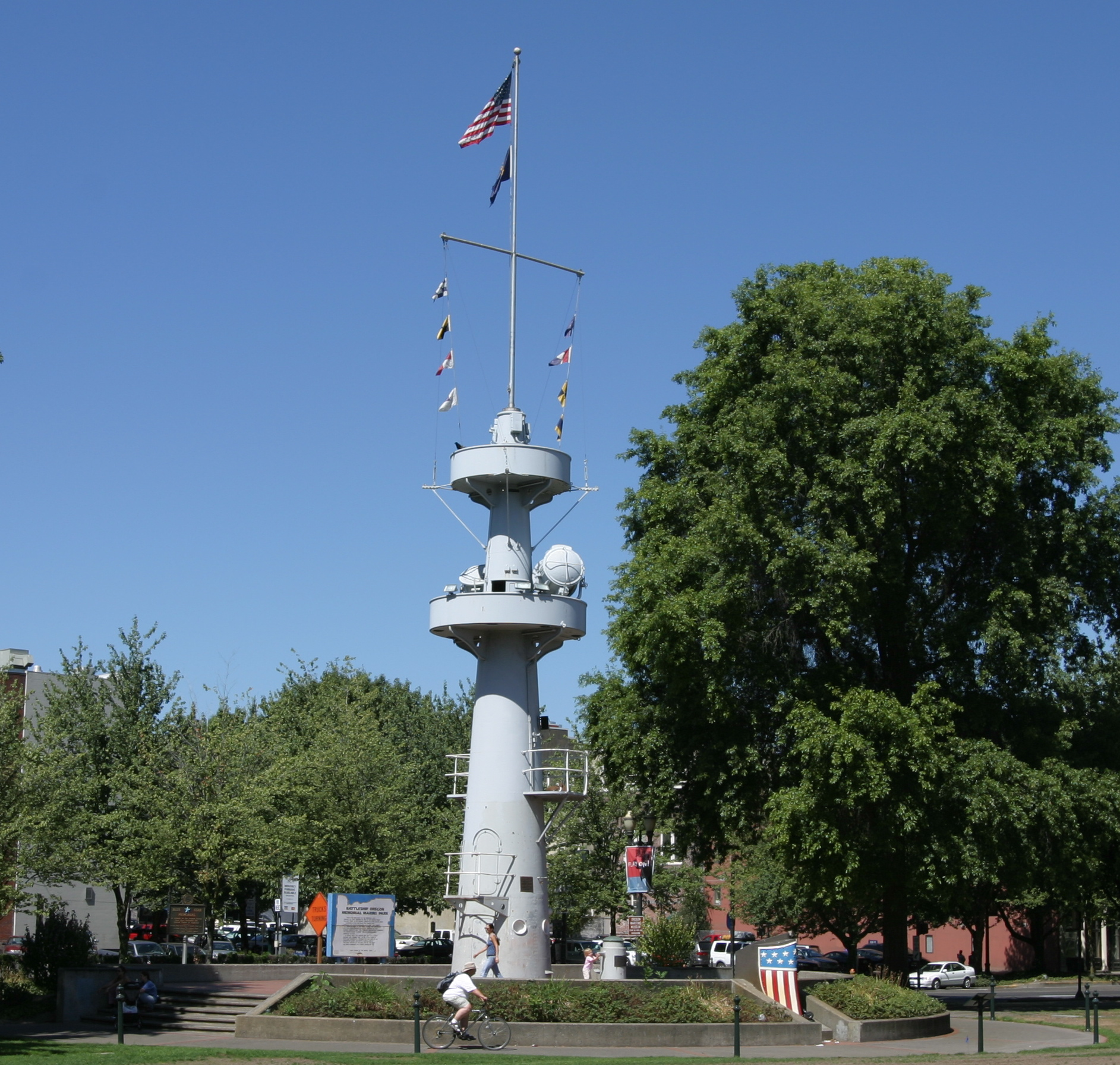 USS Oregon (BB-3) was a pre-Dreadnought Indiana-class battleship of the United States Navy. Built by Union Iron Works of San Francisco, California, she was launched 26 October 1893.